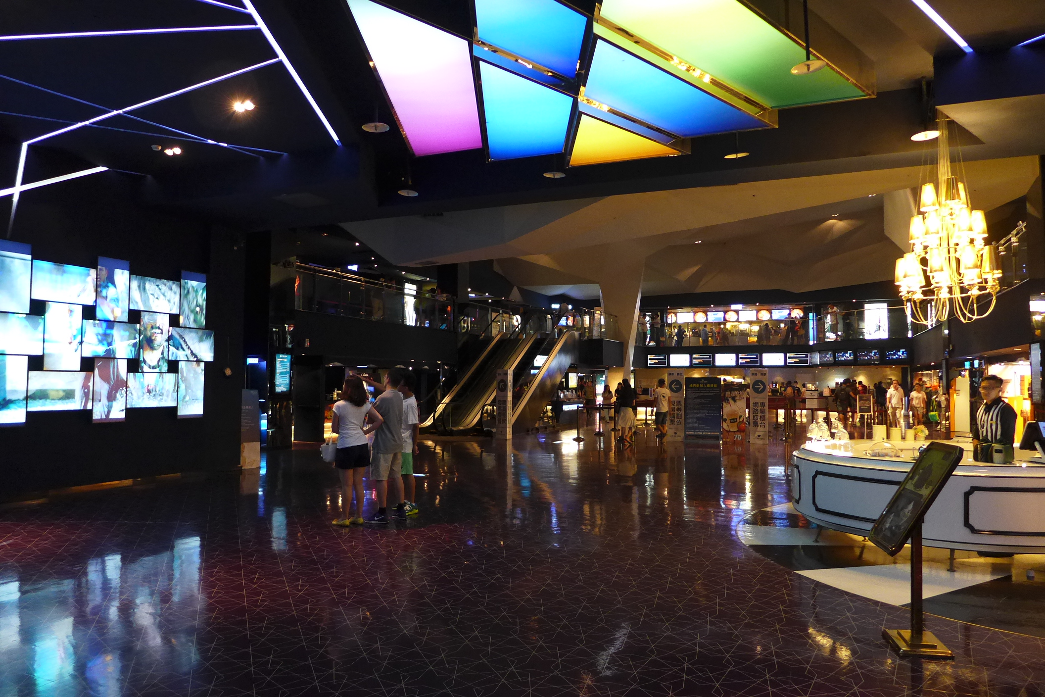 The hall of VieShow Cinemas Taipei Qsquare.